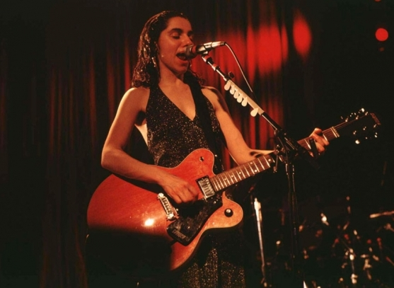 PJ Harvey in concert at Academy in New York City in 1993